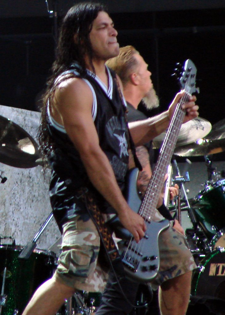 James Hetfield & Robert Trujillo - Metallica (Wembley)